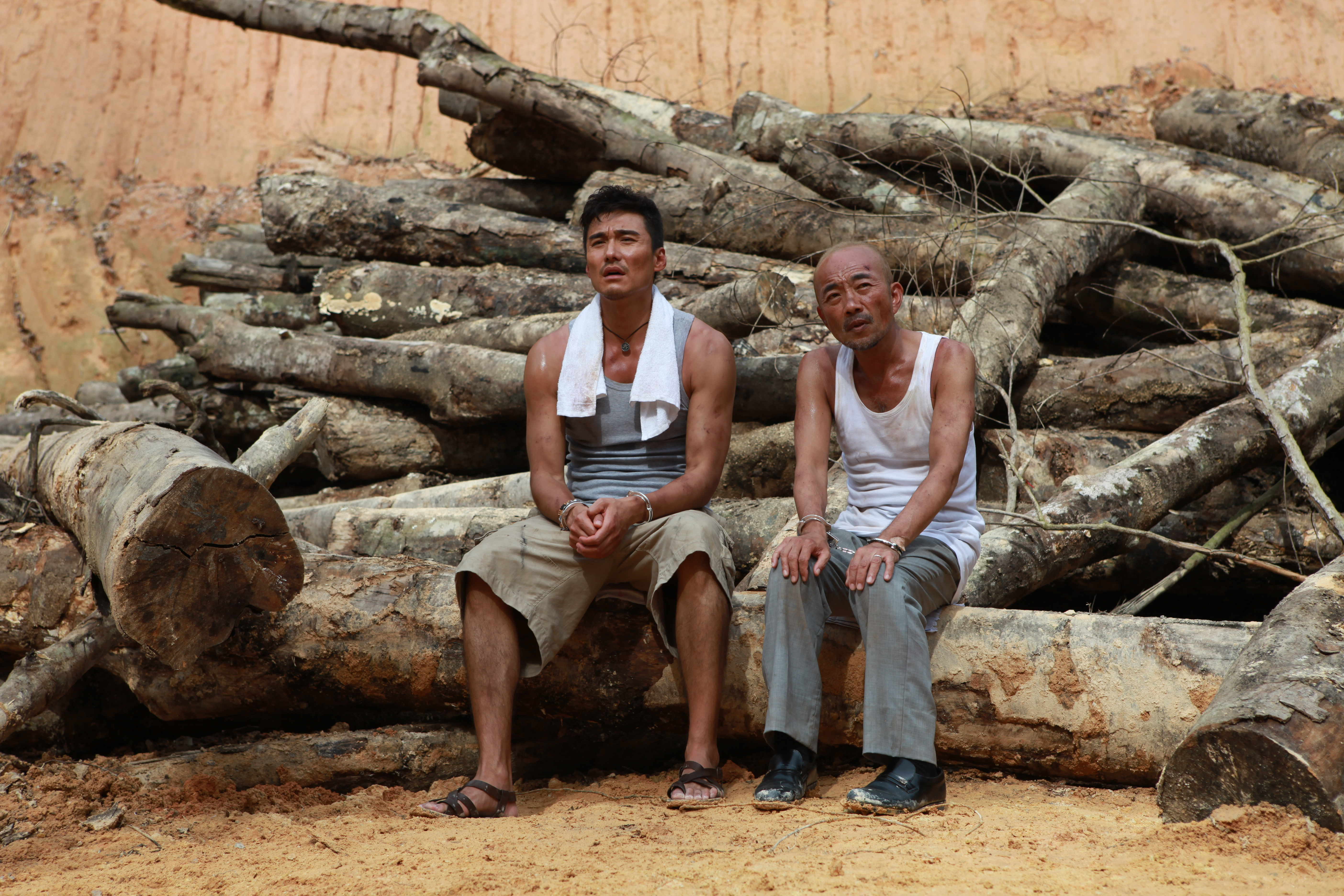 Hu Bing with Naoto Takenaka on the set of "Ken and Mary"